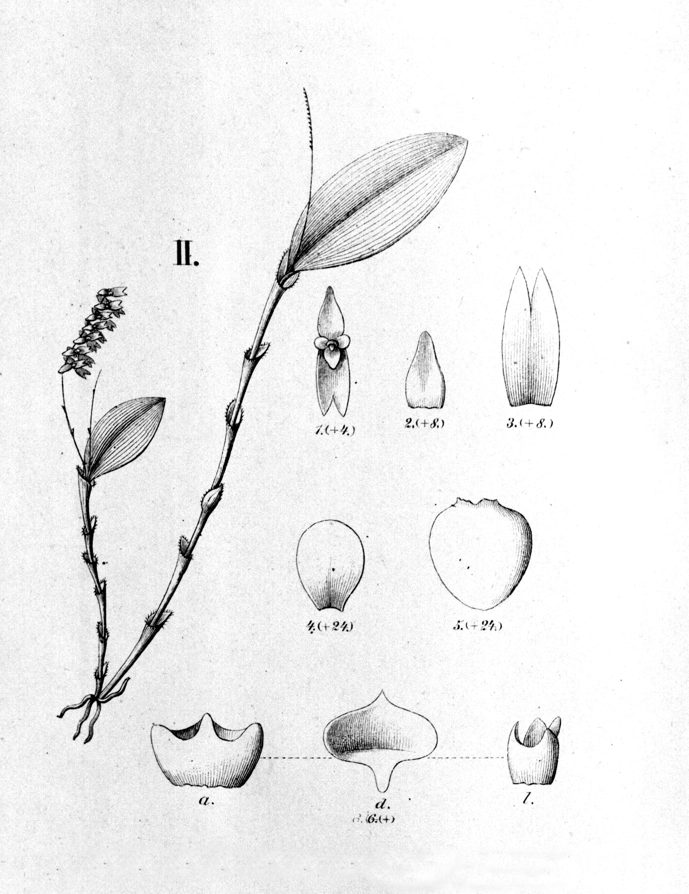 Illustration of Lepanthopsis floripecten (as syn. Pleurothallis unilateralis)